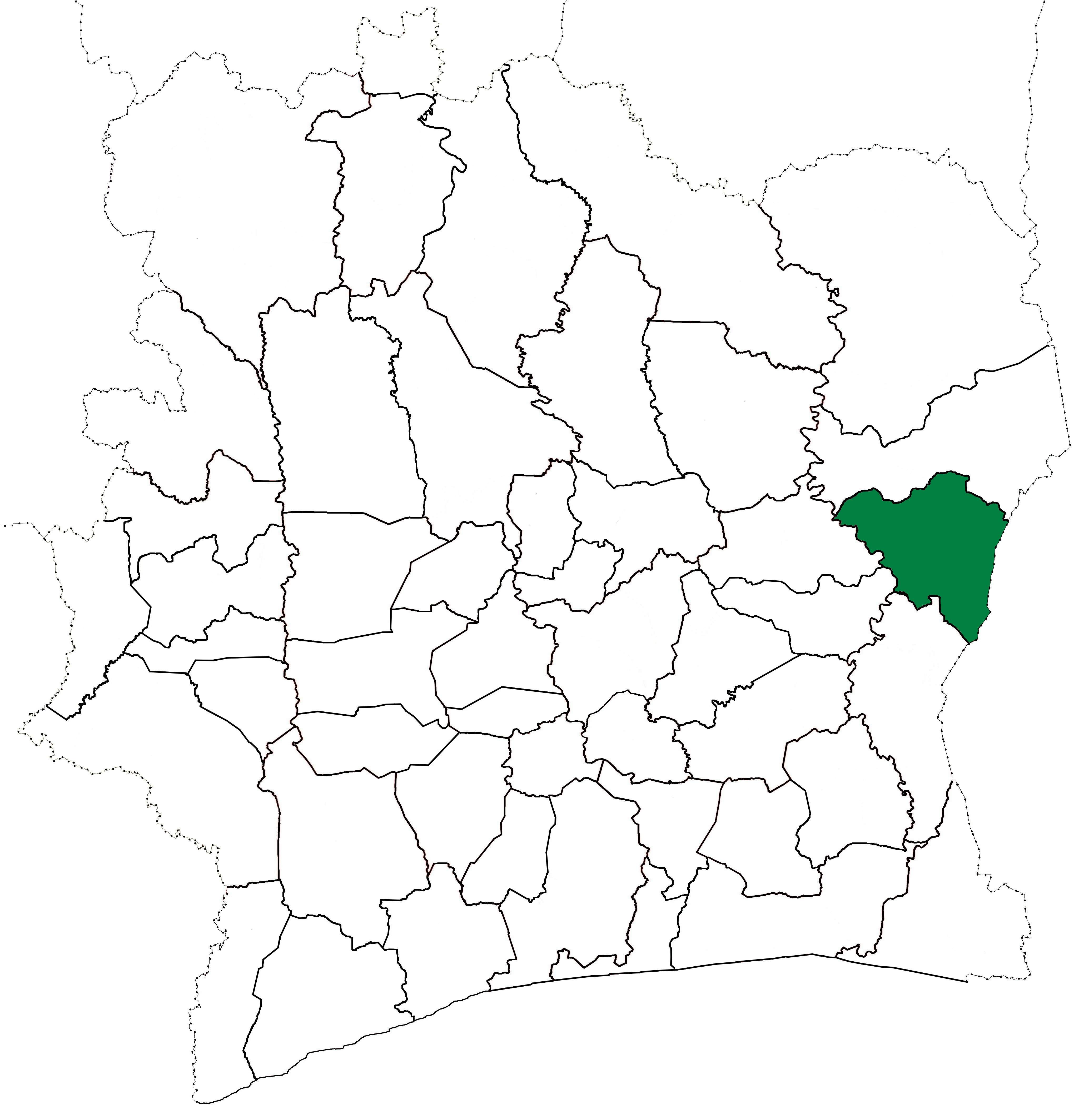 Locator map for Tanda Department in Côte d'Ivoire when it was created in 1988. Tanda Department kept these boundaries until 2005, but other boundary changes to subdivisions of Côte d'Ivoire began to be made in 1995.